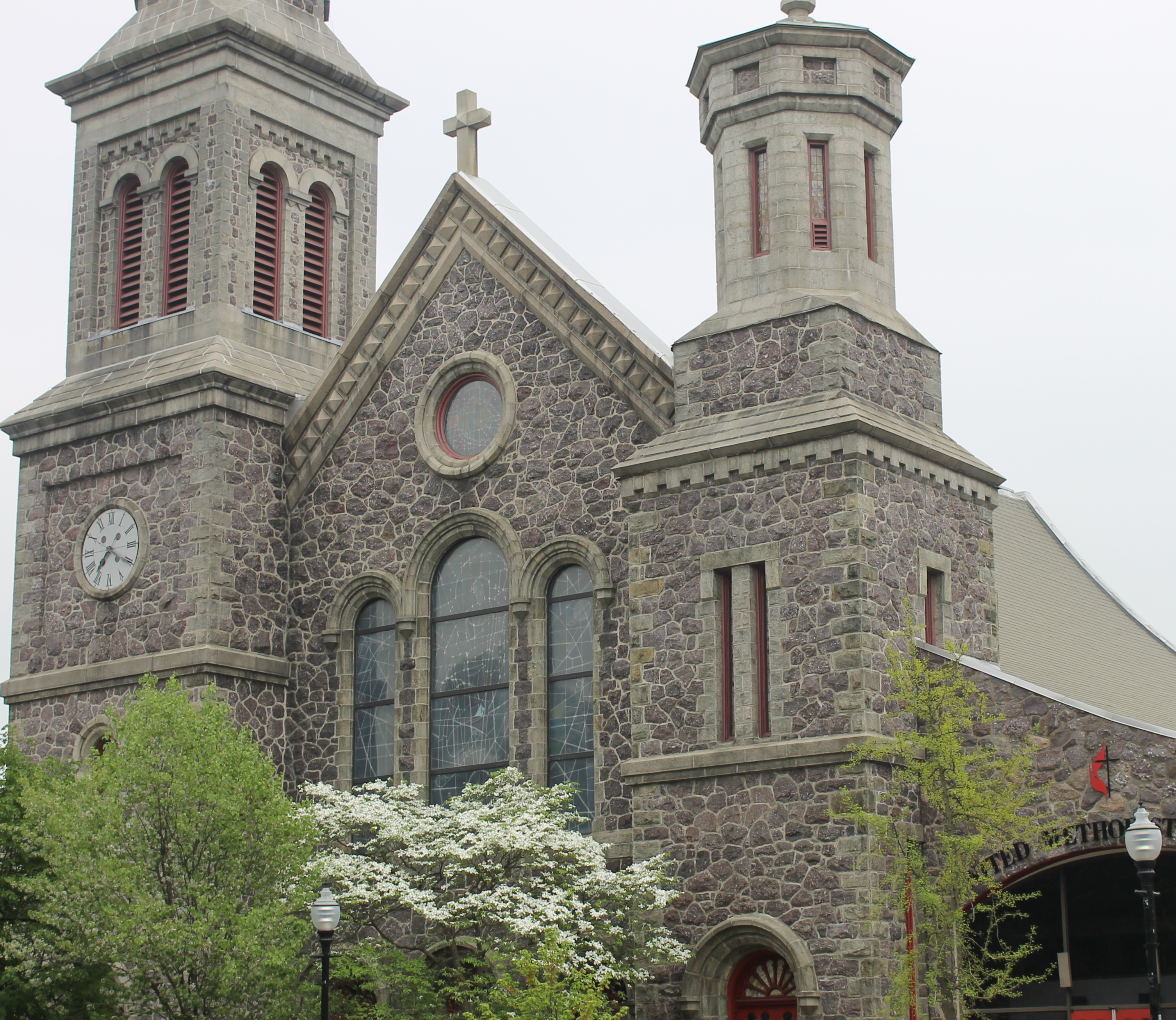 United Methodist Church in Morristown, NJ